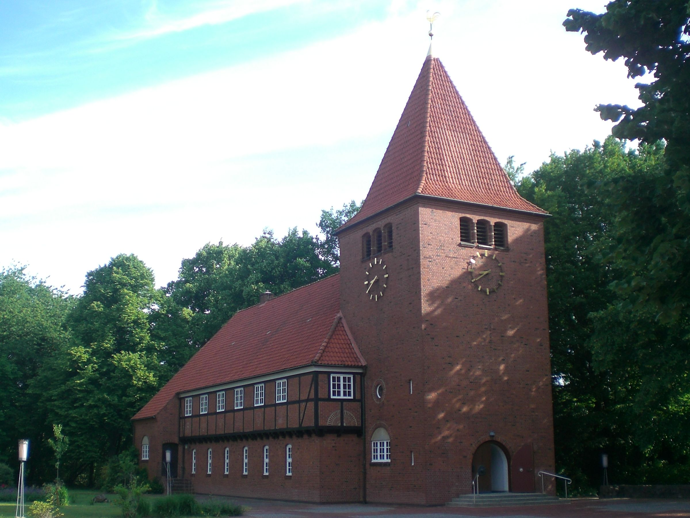 Luther church in Hamburg Wellingsbuettel